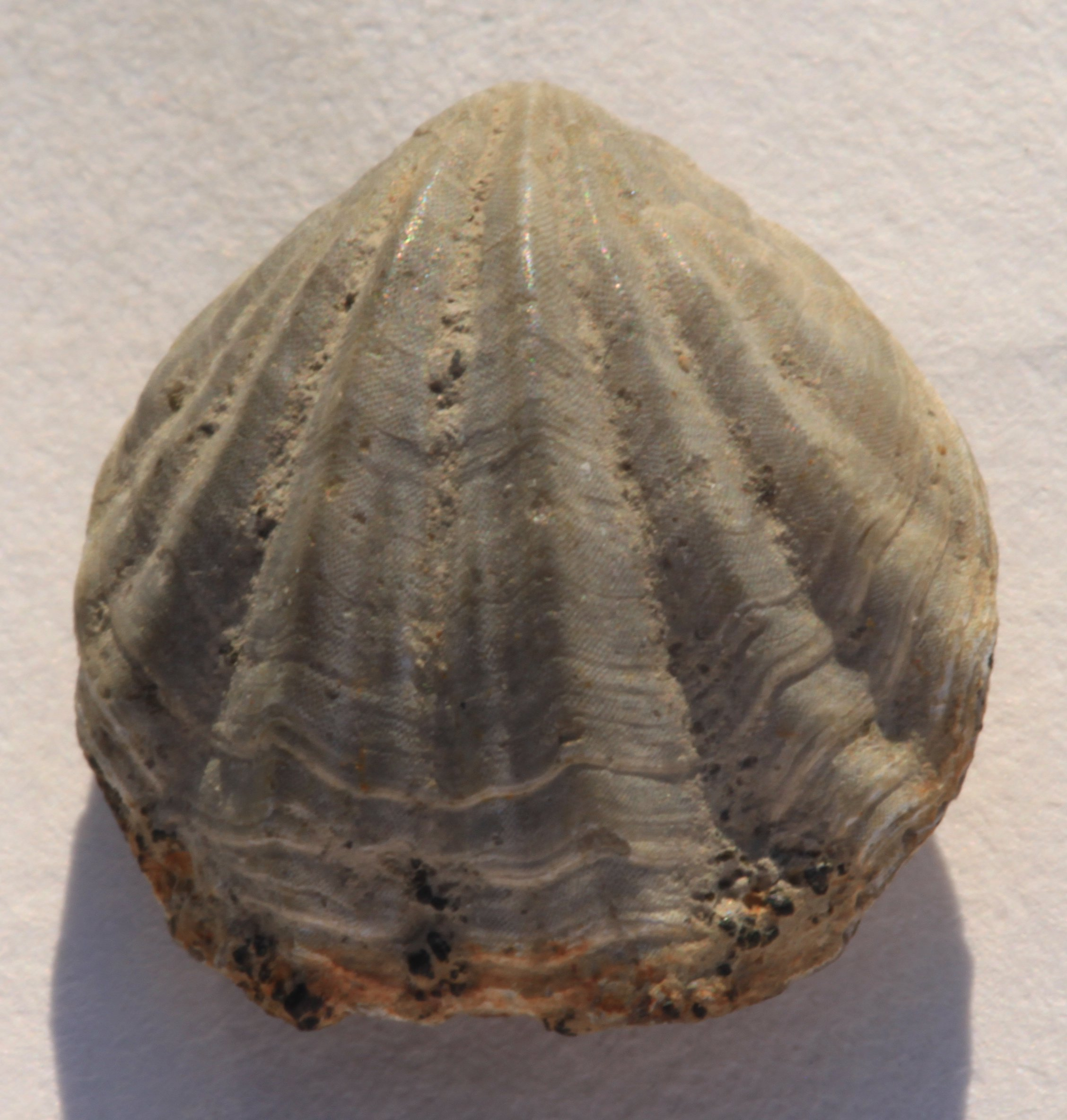 An Choristothyris plicata, lampshell, Order Terebratula, Family Terebratellidae, 16mm along the axis, pedunculate valve, collected at Navesink Formation, near Poricy Brook, New York, USA, Upper Cretaceous (Maastrichtian)